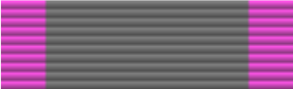 Ribbon of Belgian Queen Elizabeth Medal for relief of the suffering of Belgium's citizens during the First World War.